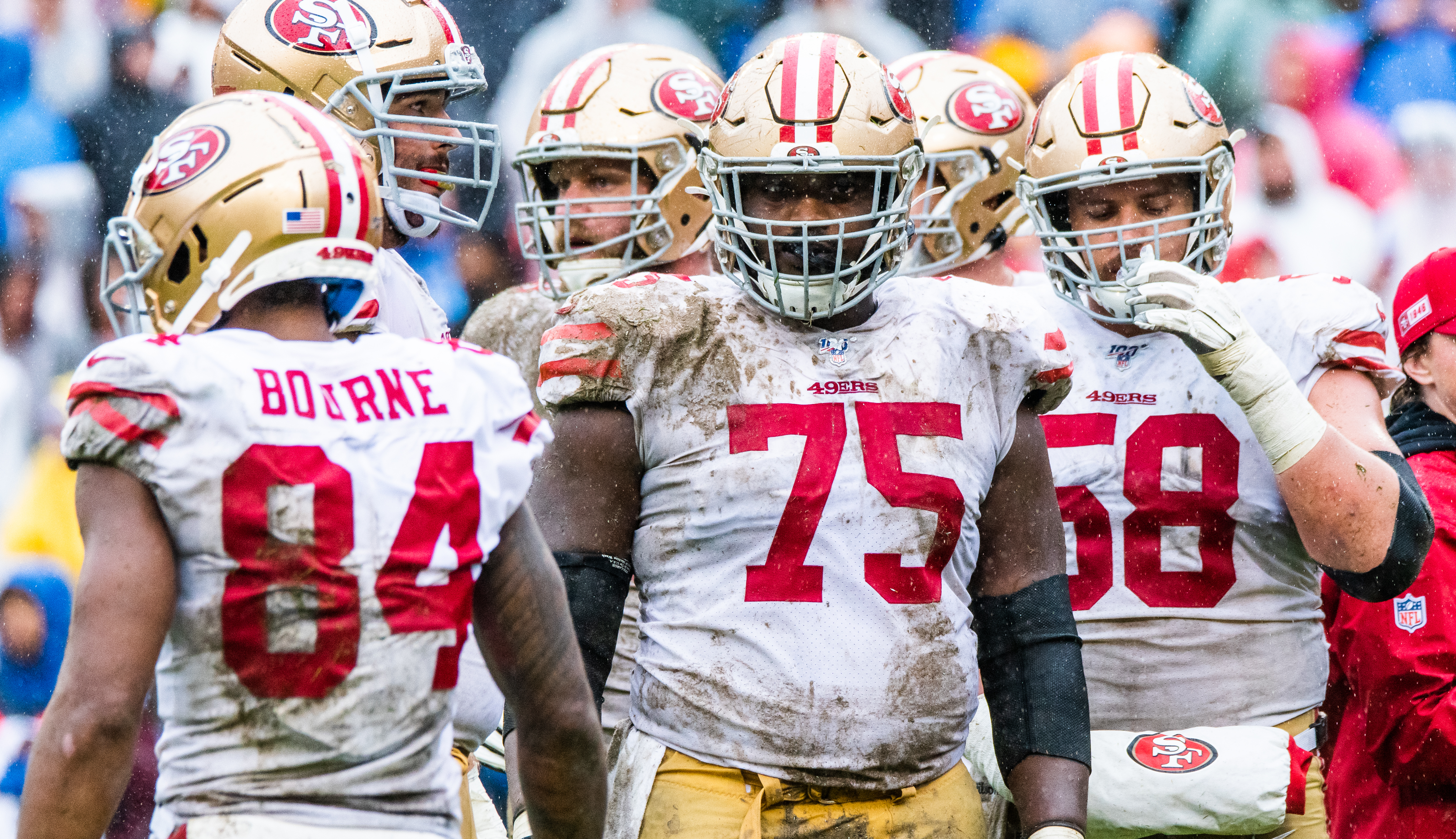 in 2019